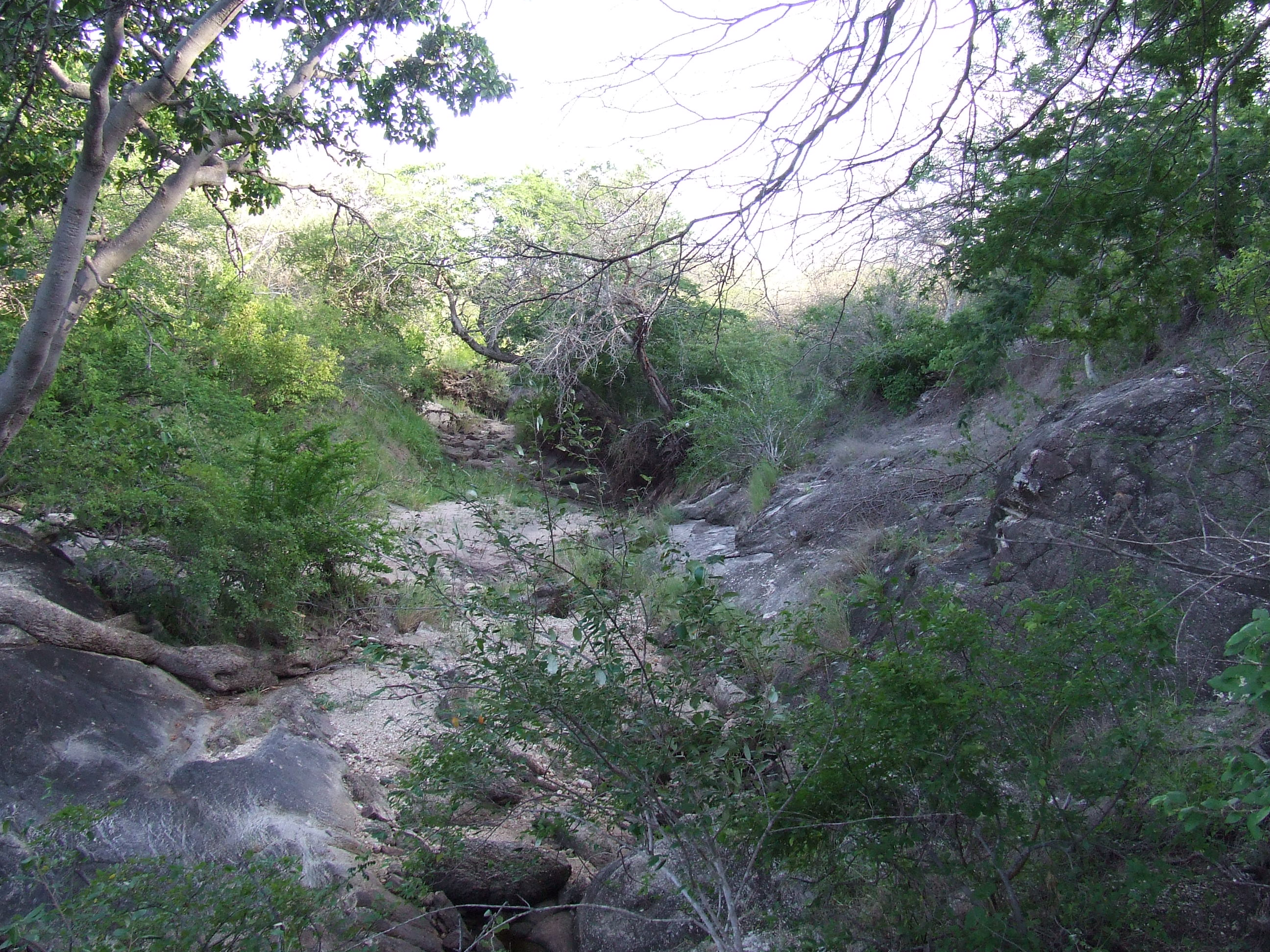 Mkomazi National Park, Tanzania